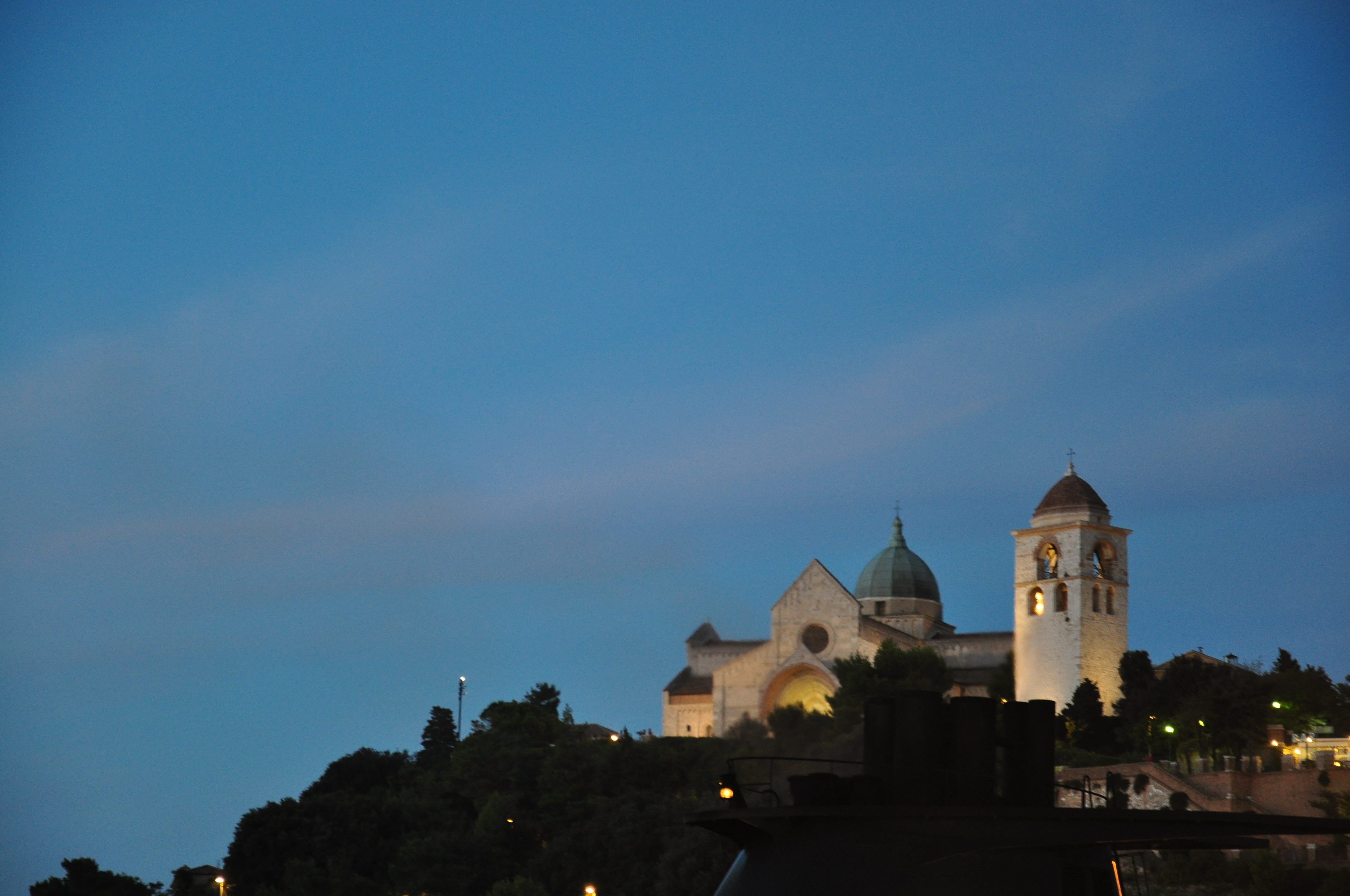 Seen from our boat in the harbor